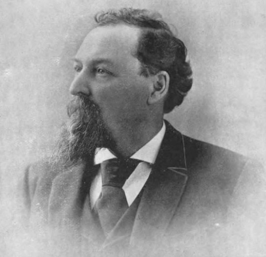 Henry B. Cleaves (Maine Governor)